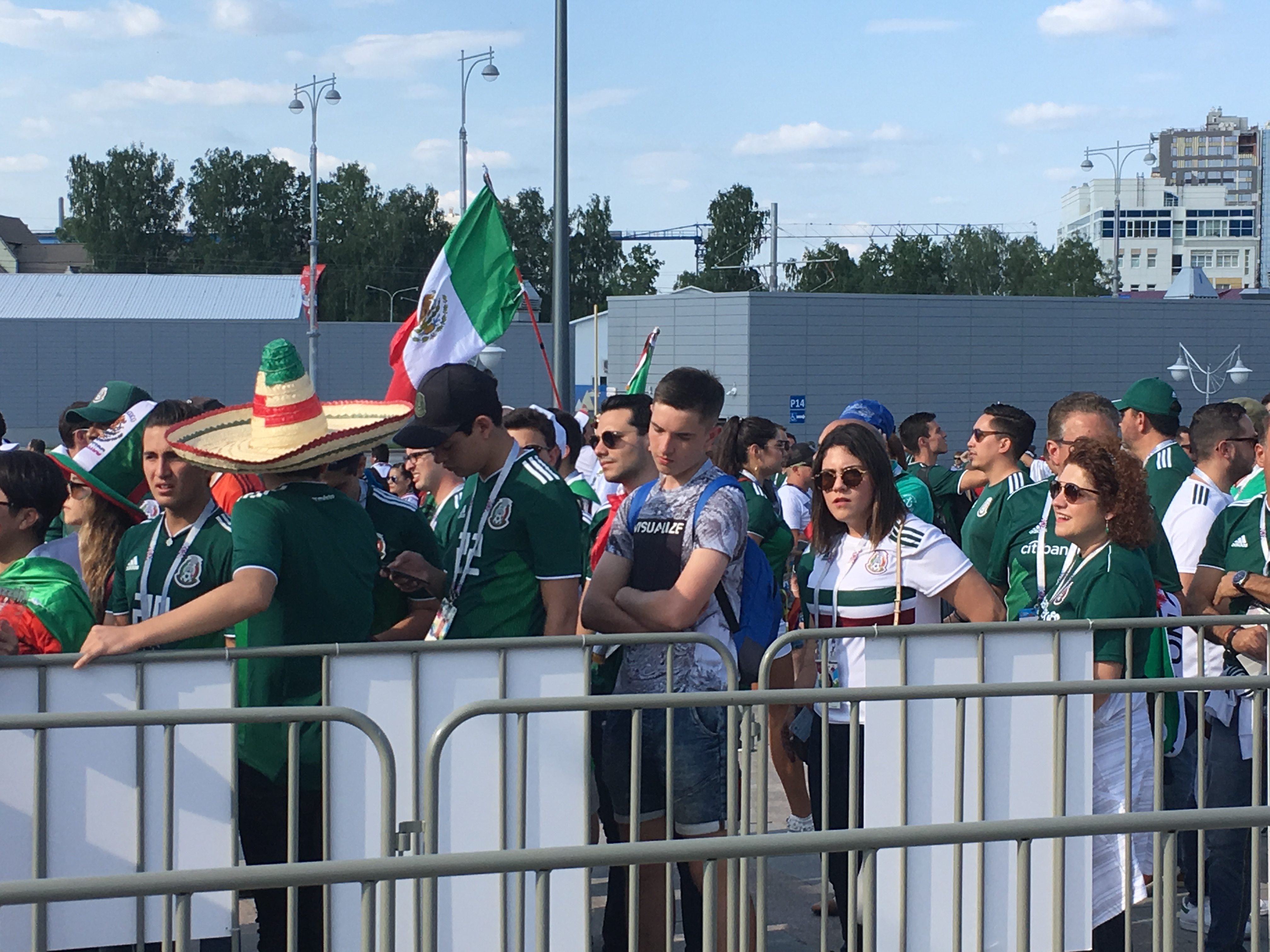 Mexico-Sweden in Yekaterinburg (2018 FIFA World Cup)